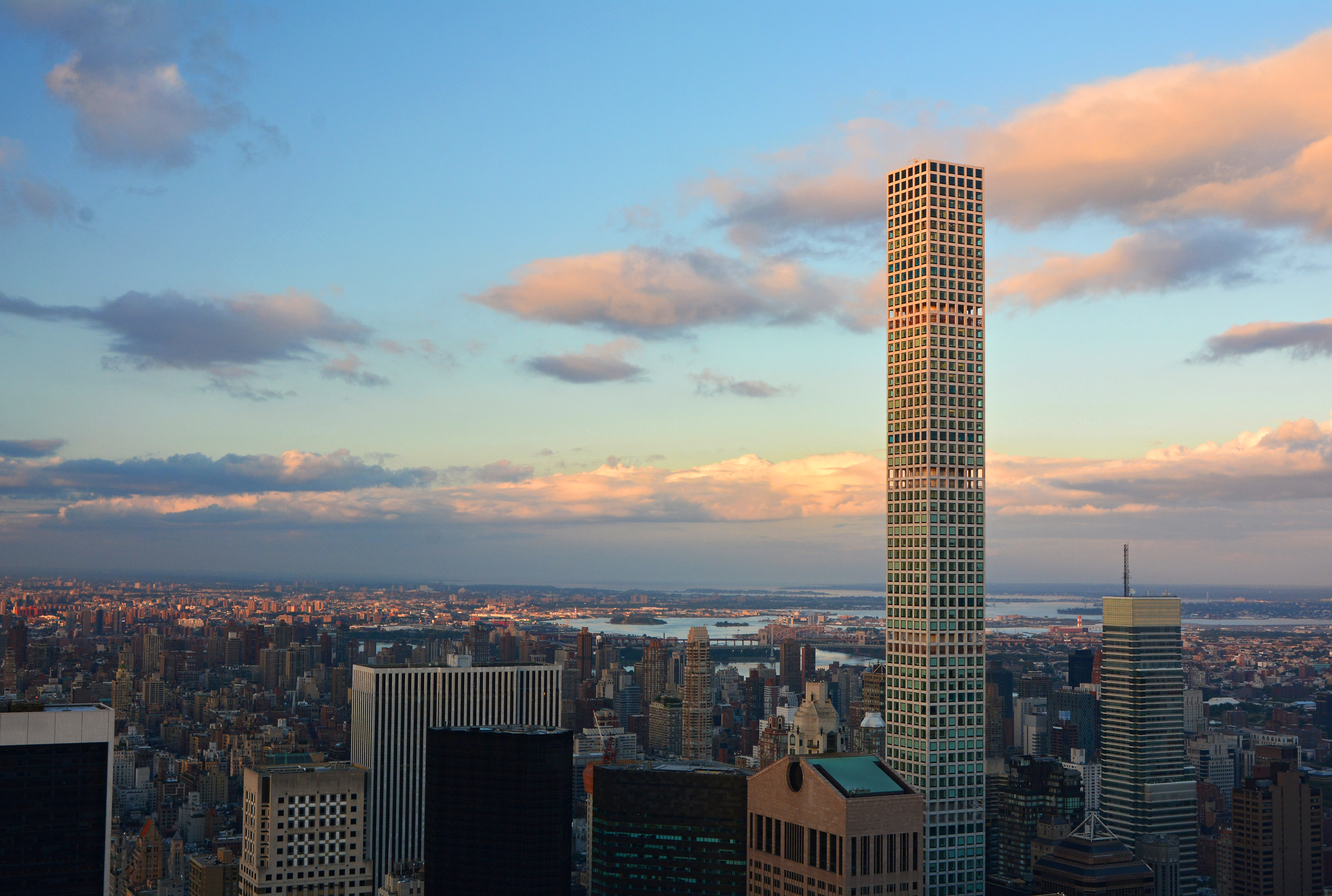 432 Park Avenue, "skinny tower" is the tallest residential tower in the world.